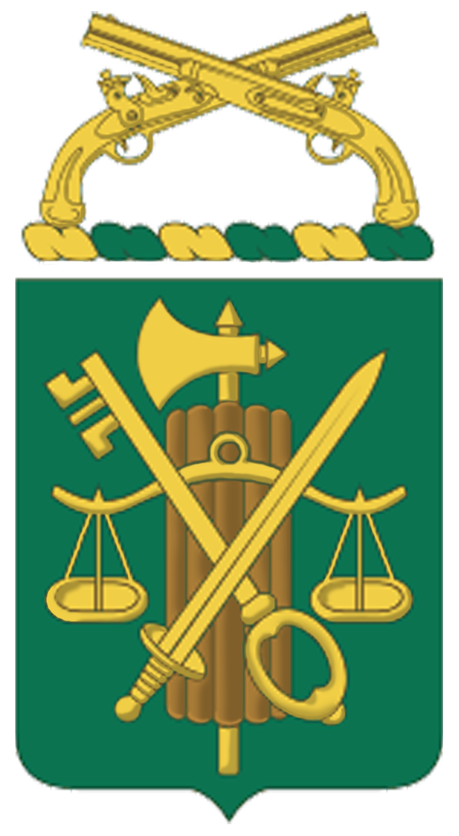 United States Army Military Police Corps Regimental Coat Of Arms